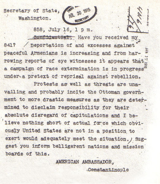 Ambassador Hernri Morgenthau Sr. telegram